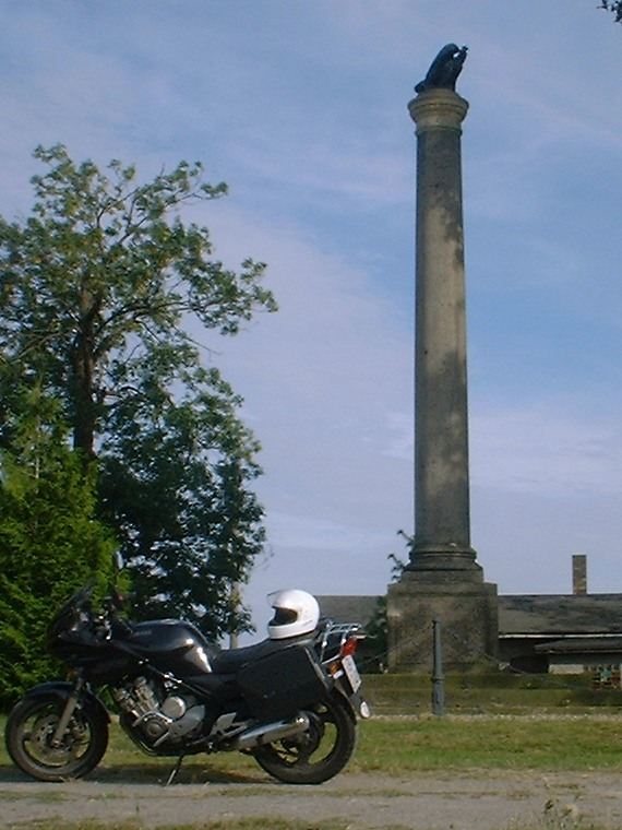 Memorial to the Battle of Torgau in Dreiheide in Saxony, Germany